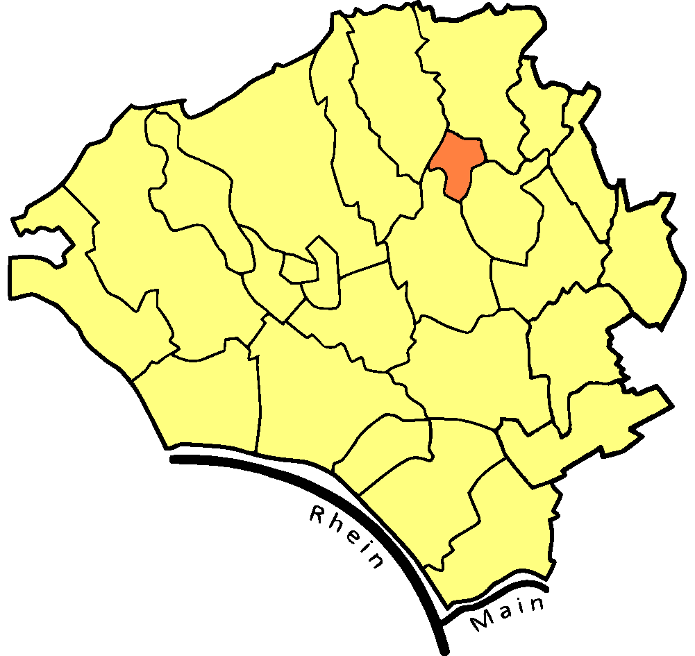 Map of Wiesbaden showing the location of Heßloch